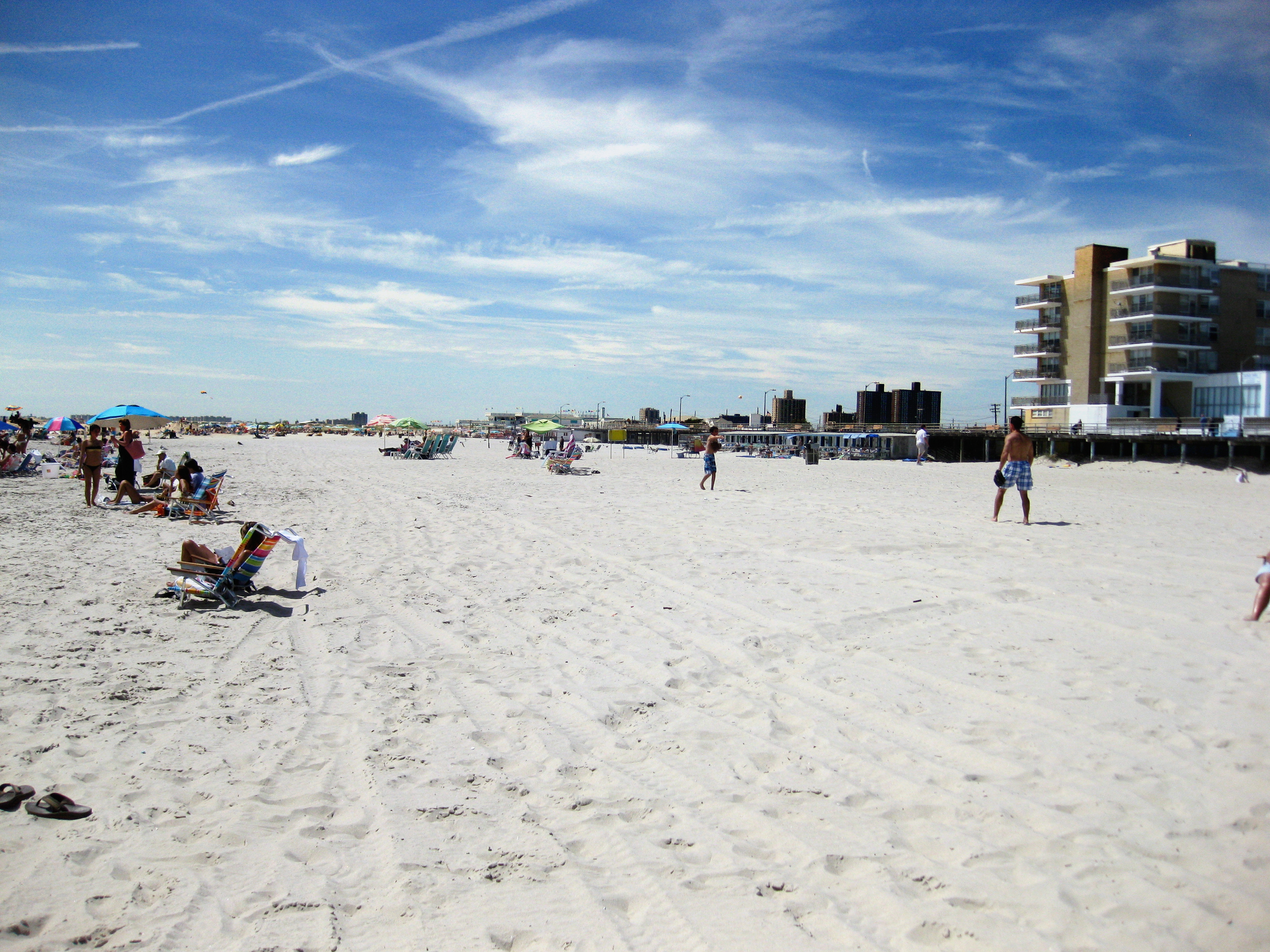 The beach in the village of Atlantic Beach on Long Island, NY. This photo was taken facing northwest. The boardwalk is visible on the right hand side of the photo.